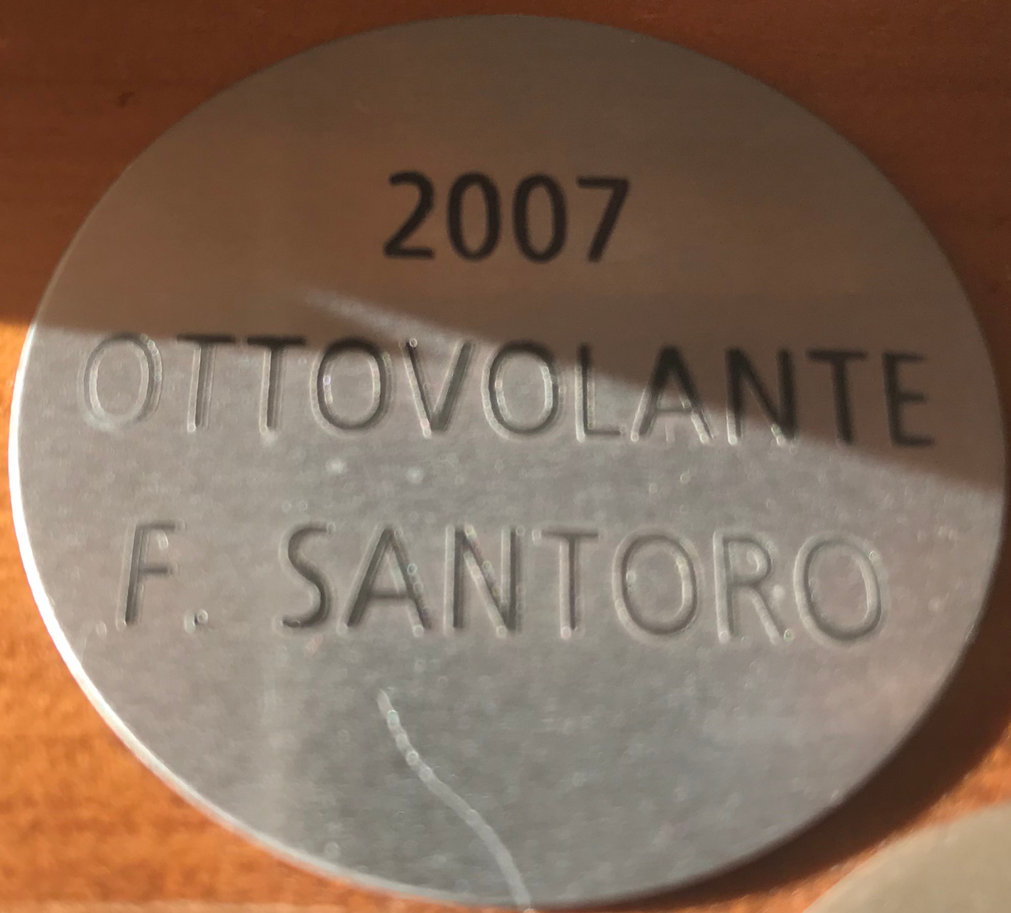 Patch on the Trophy